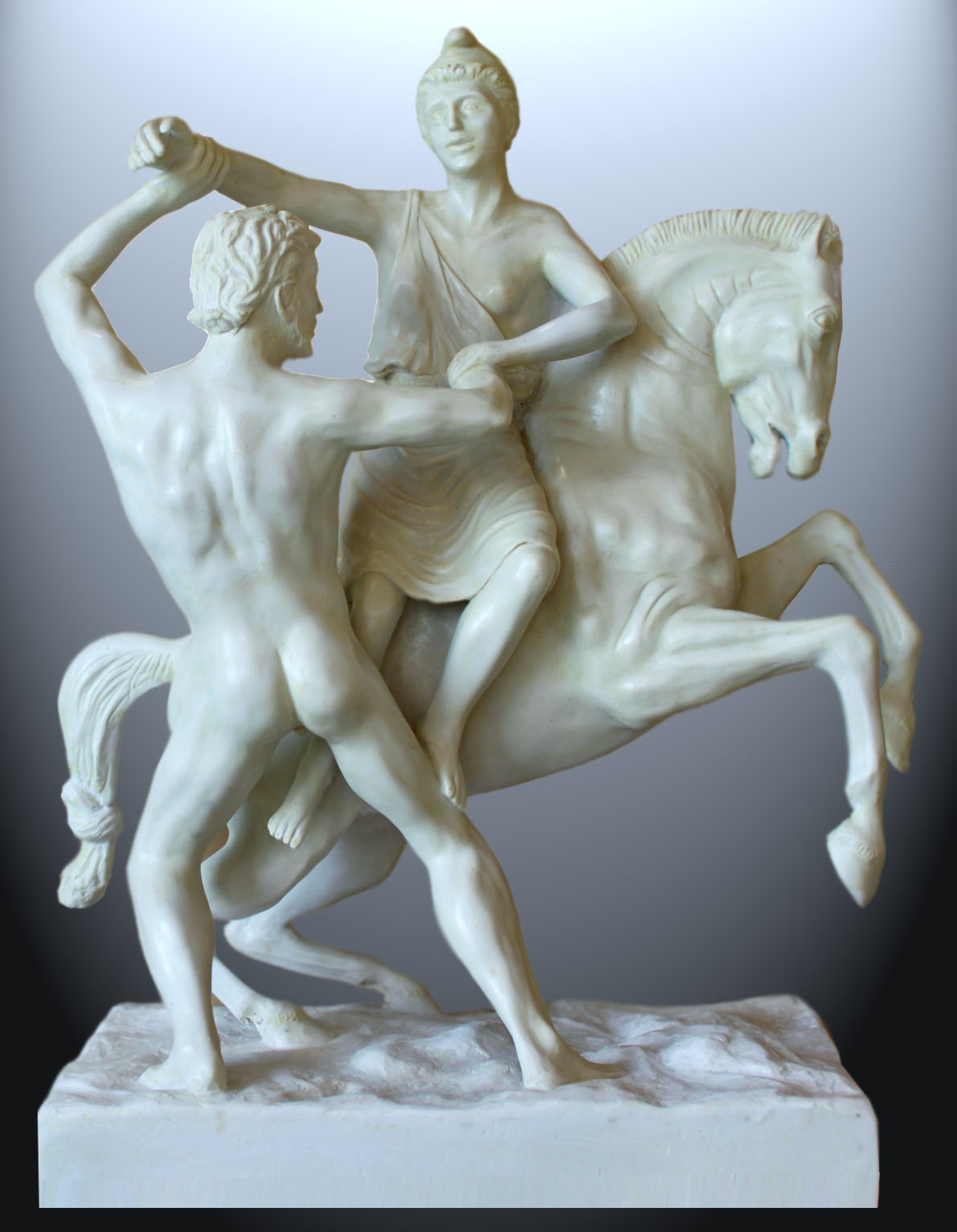 Heracles gets the Belt of Hippolyte, Queen of the Amazons.Statuette of 78 by 65 and 32 cm.Work of J. M. Félix Magdalena.